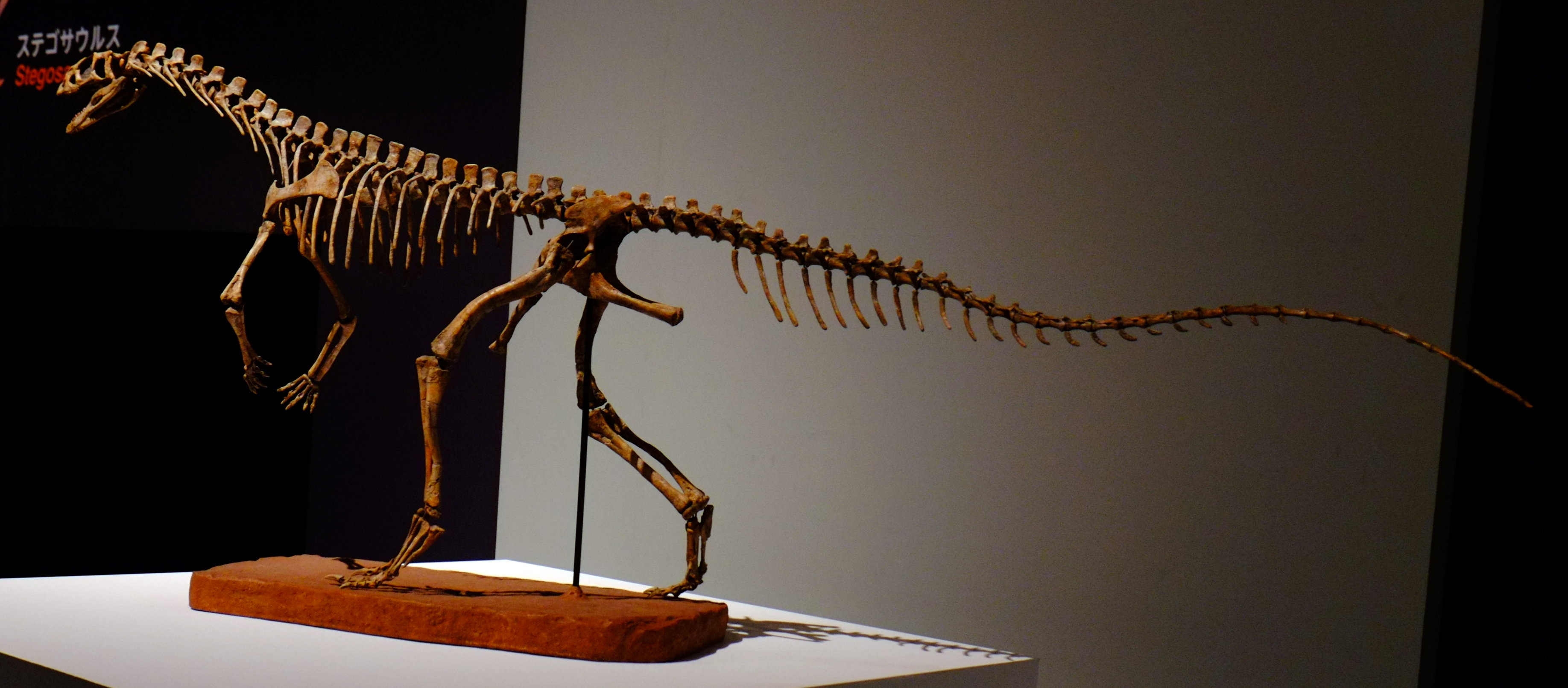 四足歩行で寛骨臼が貫通してないので恐竜に最も近い爬虫類。